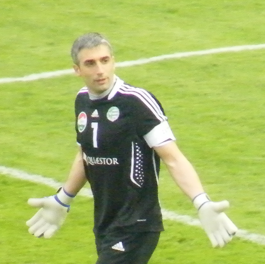 Saša Stevanović Serbian association football player.